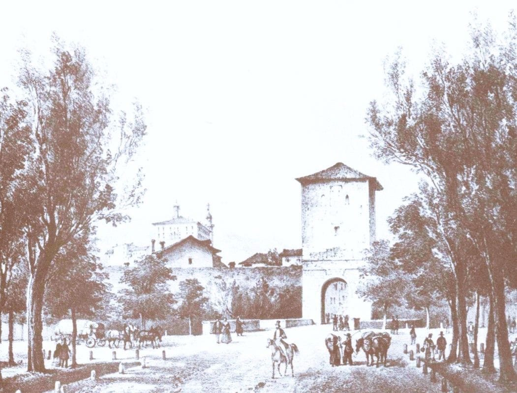 Porta Poscolle esterna